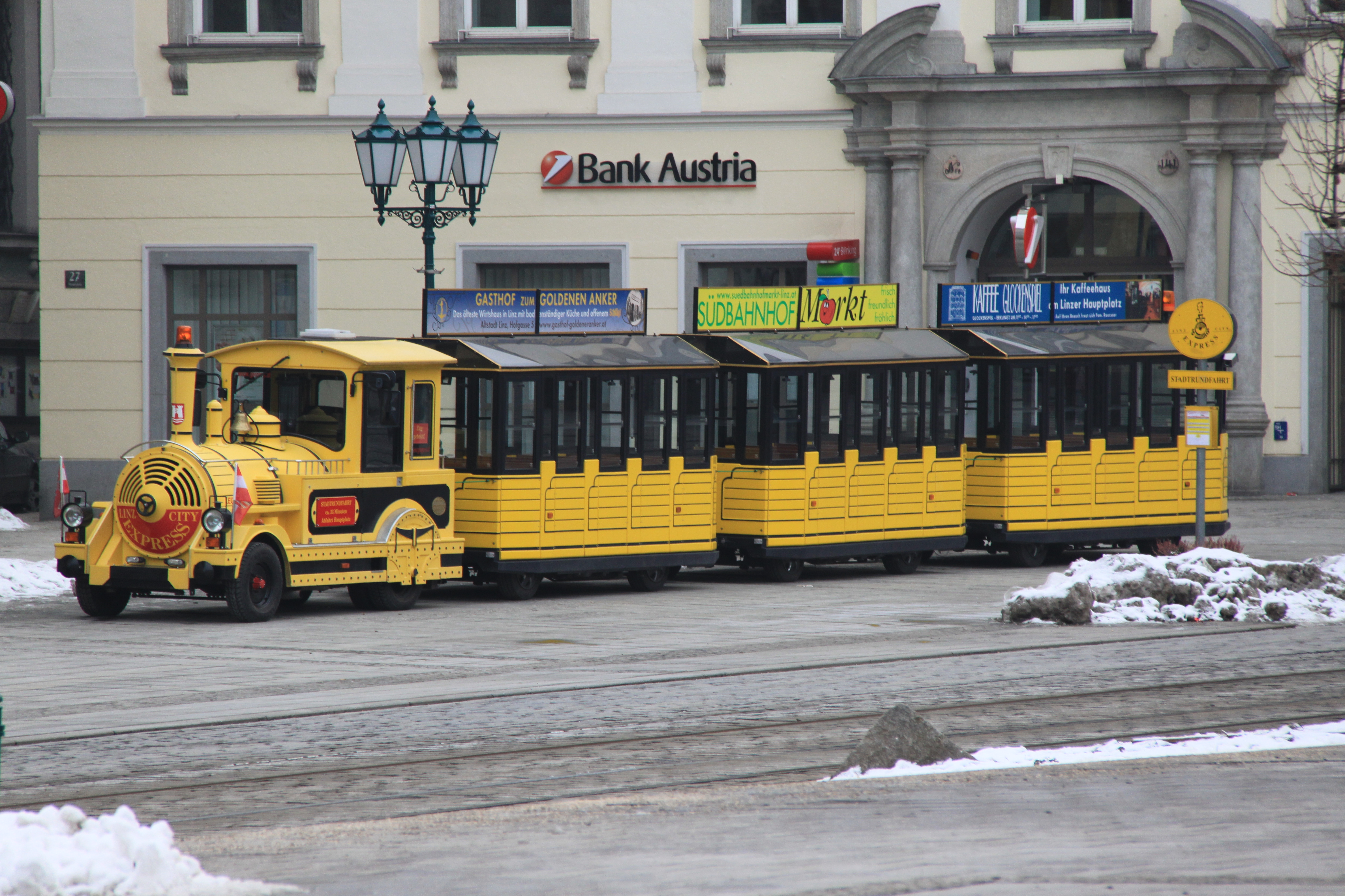 Austria - January 2011